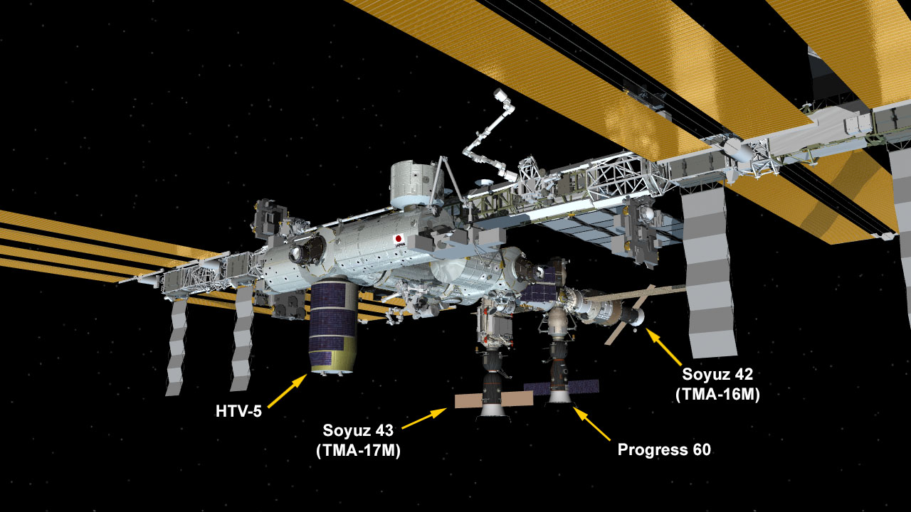 (Clockwise from top) The Soyuz TMA-16M spacecraft is docked to the Zvezda service module. The ISS Progress 60 spacecraft is docked to the Pirs docking compartment. The Soyuz TMA-17M spacecraft is docked to the Rassvet mini-research module. Japan’s “Kounotori” HTV-5 is berthed to the Harmony module.